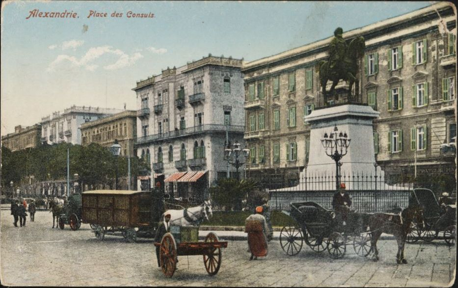 Colorized photo of a calm street